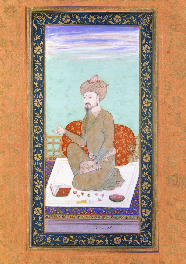 Portrait of Mughal Emperor Zahir ud-Din Mohammad (Babur)